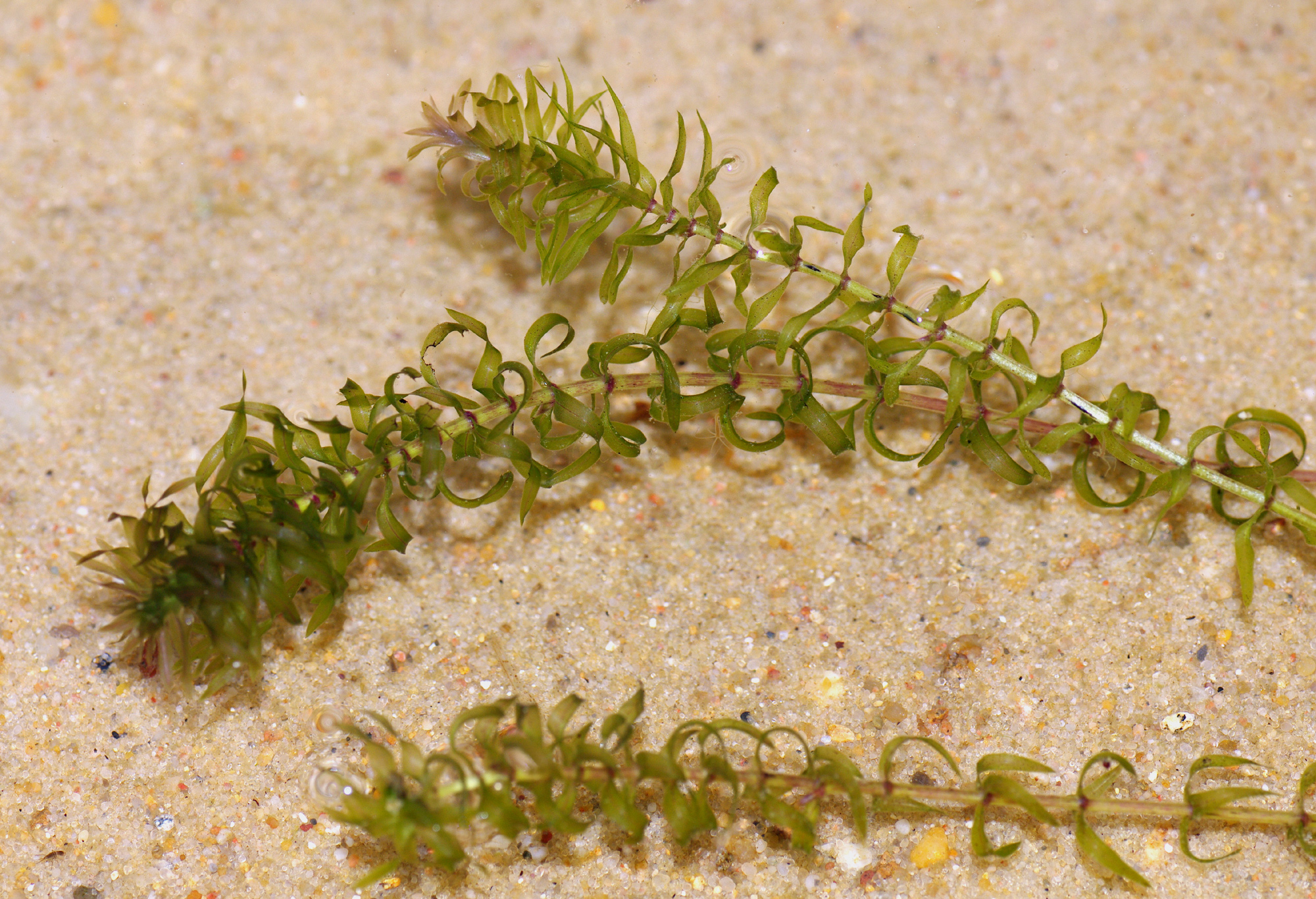 Parts of the Western Waterweed (Elodea nuttallii) in a gravel pit. Note the highly curved, twisted and pointed leaves.